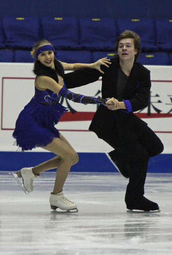 Marina ANTIPOVA and Artem KUDASHEV (RUS) Grand Prix Final 2008 – Juniors, Dance. OD - Rhythms of the 1920s, 1930s, and 1940s